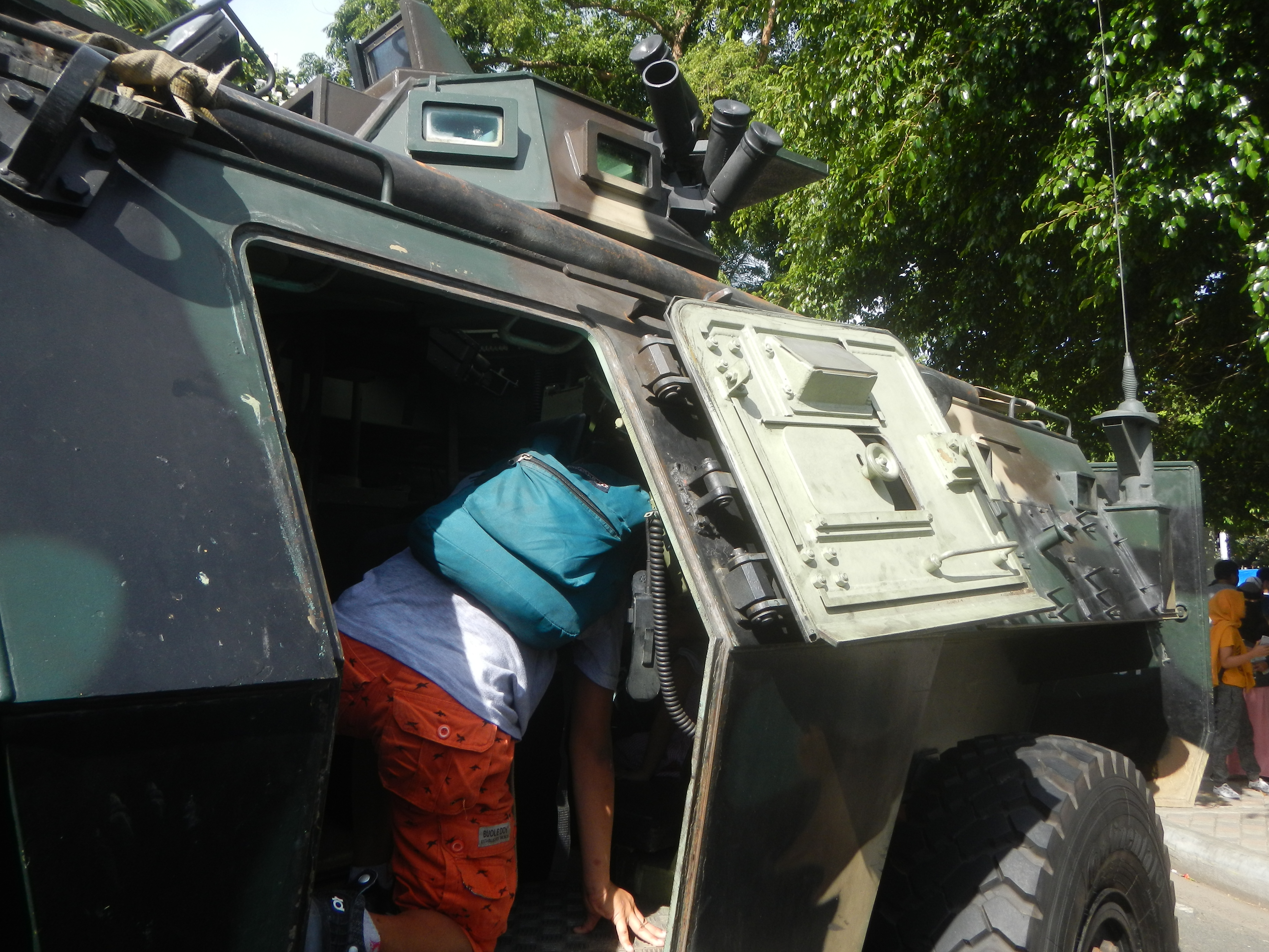 Armed Forces of the Philippines Armed Forces of the Philippines (Philippine National Police, Philippine Coast Guard, Philippine Army, Philippine Navy & Armed Forces of the Philippines Reserve Command) - Kalayaan 2019, Rizal Park Government agencies of the Philippines - Kalayaan 2019 Kalayaan 2019 - 121st Philippine Independence Day, Rizal Park Rizal Park Roxas Boulevard Ermita Independence Day (Philippines) Luneta 14°34'57"N 120°58'42"E Philippine highway network (Note: Judge Florentino Floro, the owner, to repeat, Donor Florentino Floro of all these photos hereby donate gratuitously, freely and unconditionally Judge Floro all these photos to and for Wikimedia Commons, exclusively, for public use of the public domain, and again without any condition whatsoever).